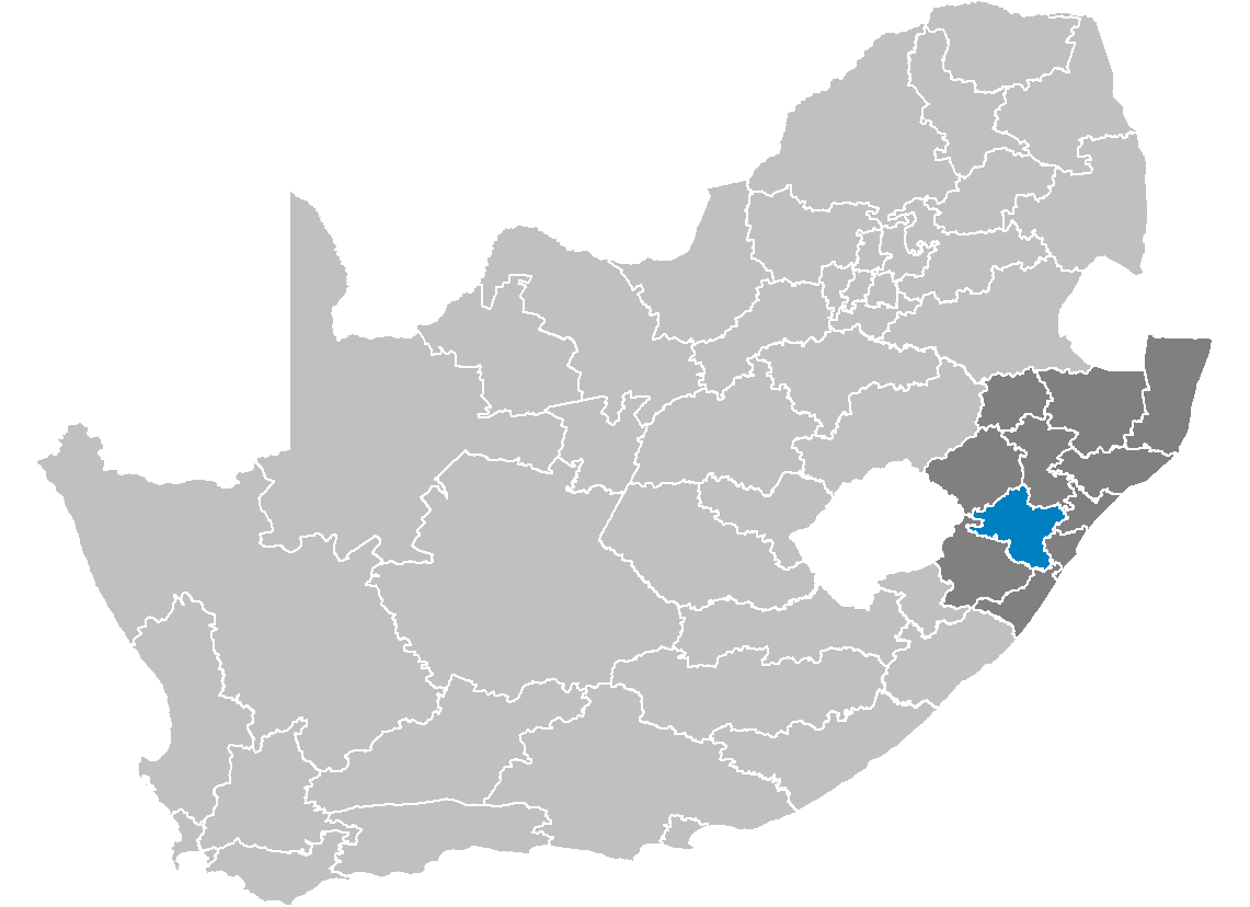 Map showing the Umgungundlovu District Municipality higlighted within KwaZulu-Natal.